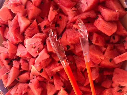 Watermelon, ready to be served